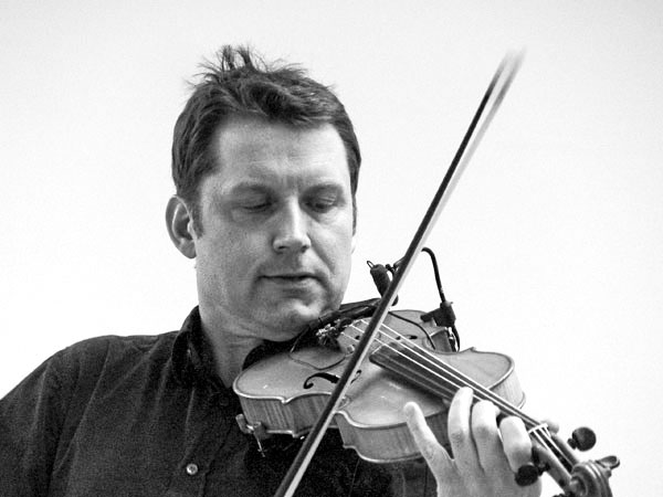 Kristian Jørgensen (2012)